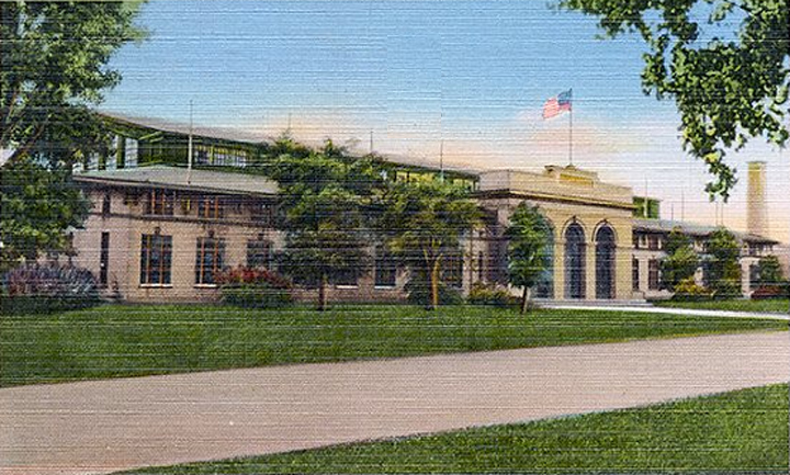 New York State Fair at Syracuse, New York - Coliseum